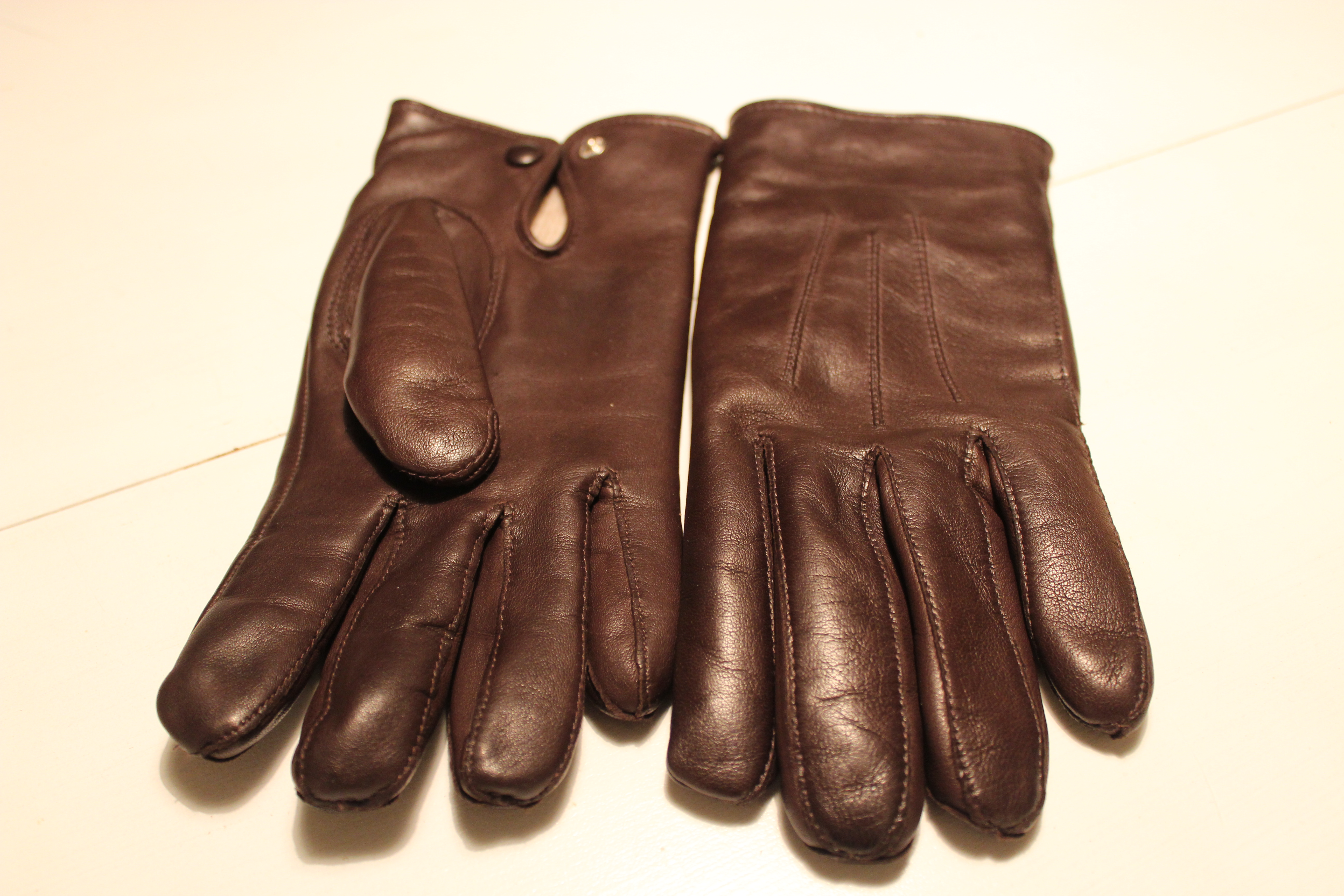 Gloves from the Danish glove manufacturer Randers Handsker (Randers Gloves).